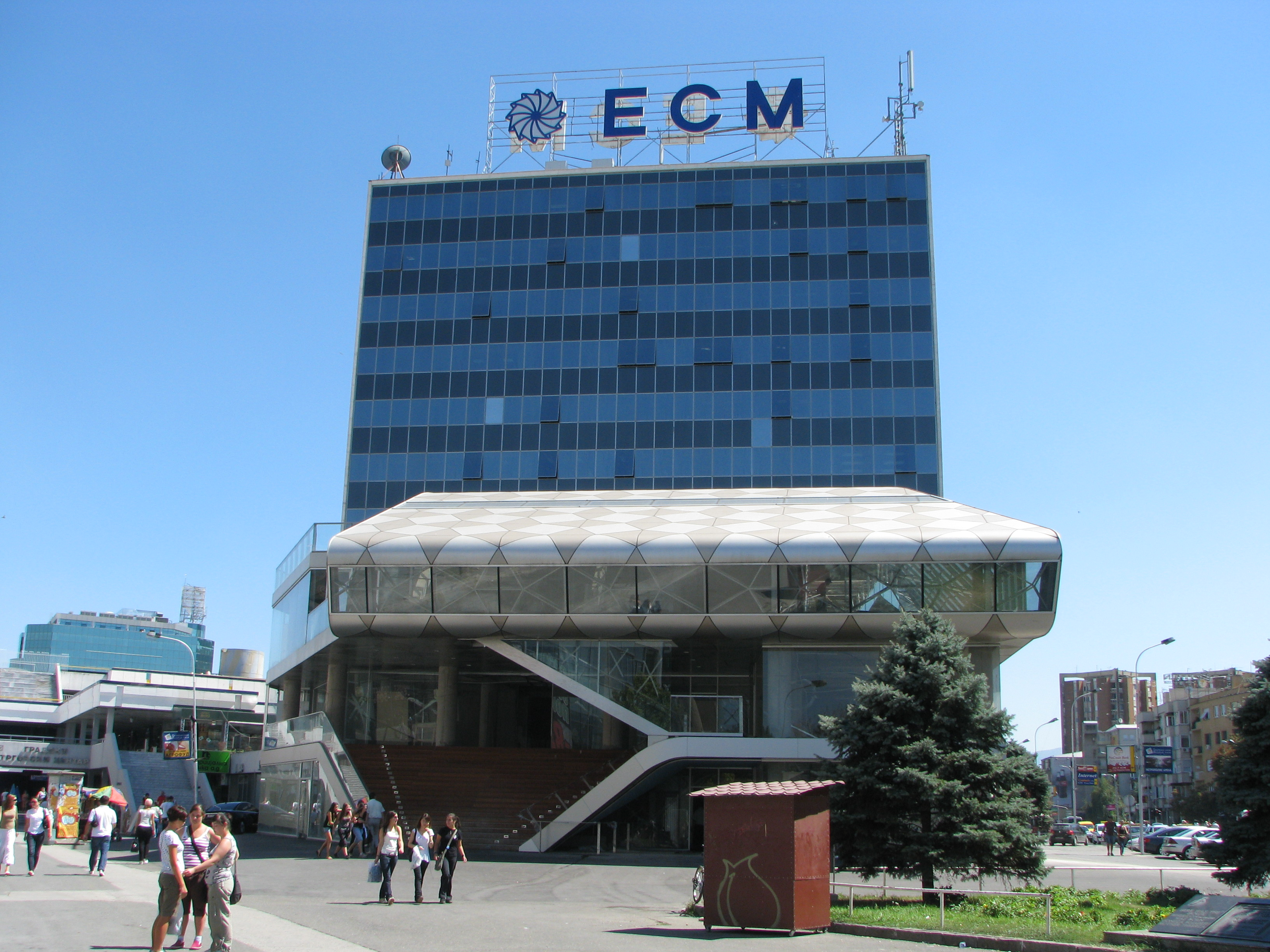 EVN Building in Skopje, Macedonia